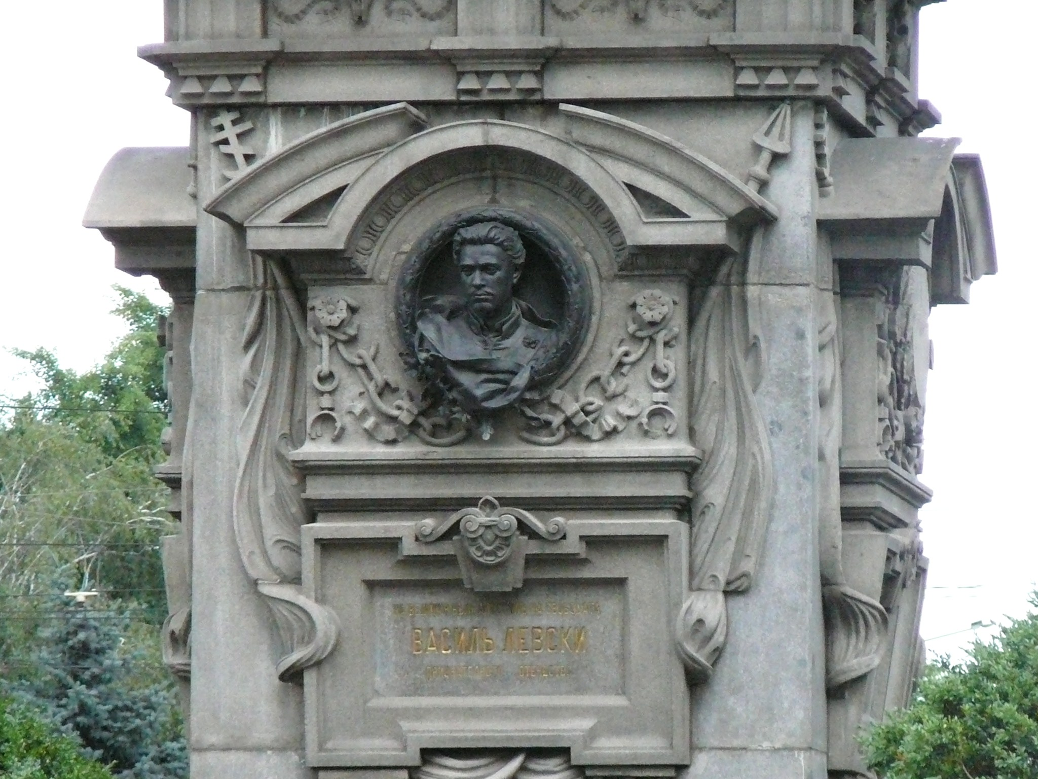 Monument commemorating Levski's hanging in Sofia, Bulgaria: structure was started work on 1878, but only completed in 1895